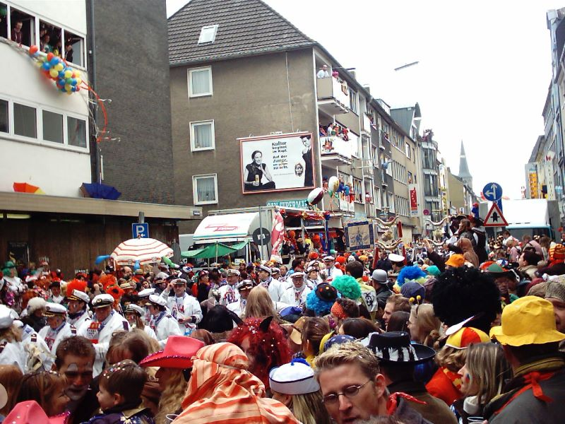 Cologne carnival in 2004